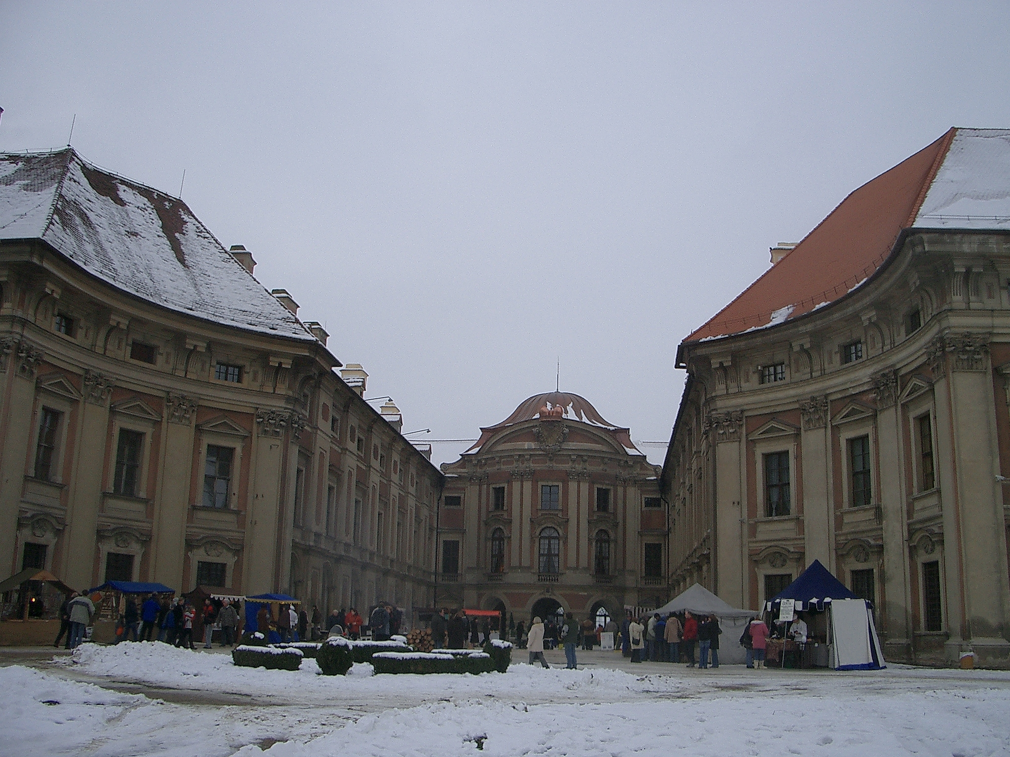 Front view of the Austerlitz/Slavkov Palace at Slavkov u Brna, Czech Republic. Photo taken during the 200th anniversary of the battle of Austerlitz (hence the stalls). Author: Jean-Claude Brunner